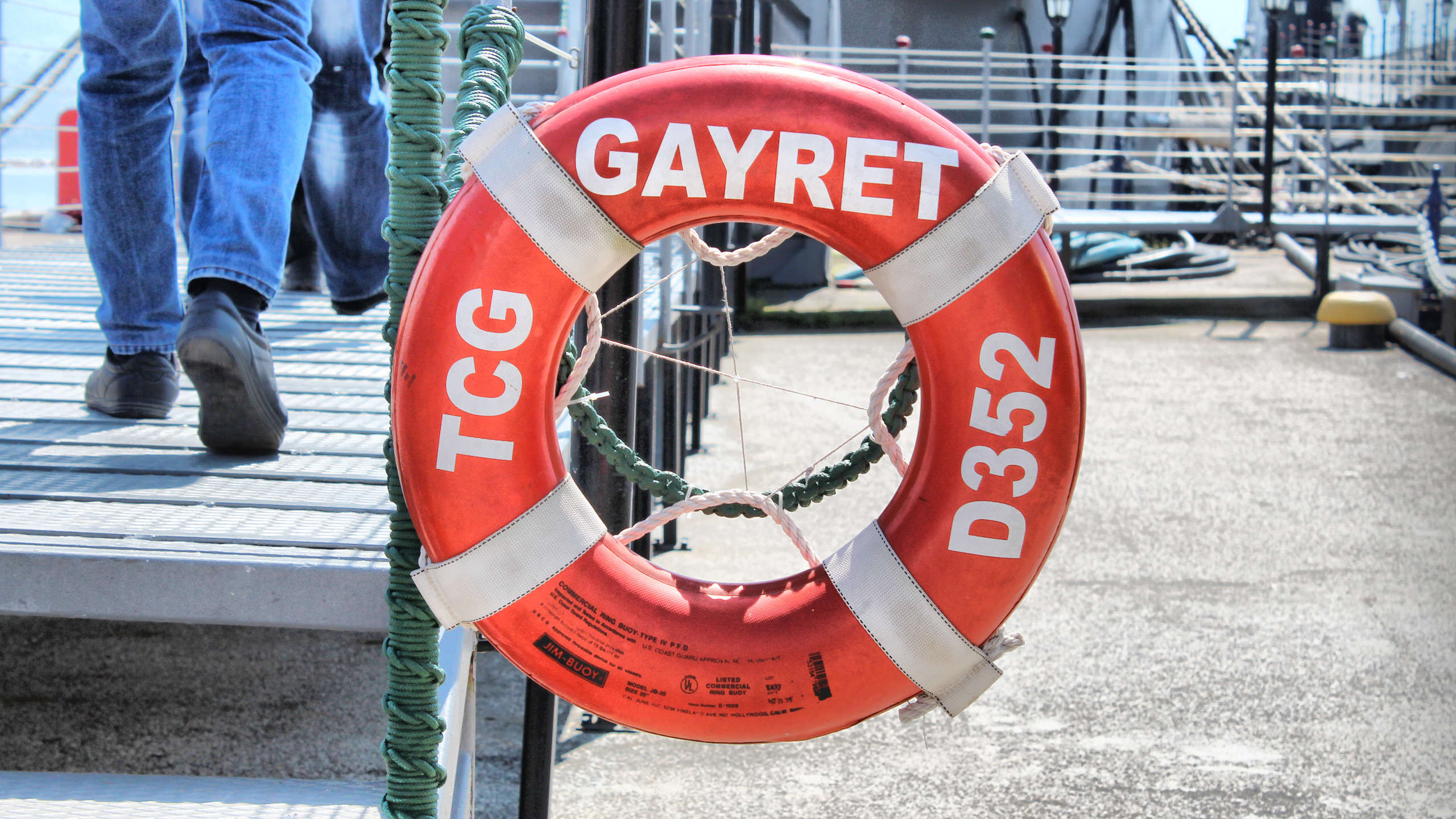 USS Eversole (DD-789) - TCG Gayret (D-352)